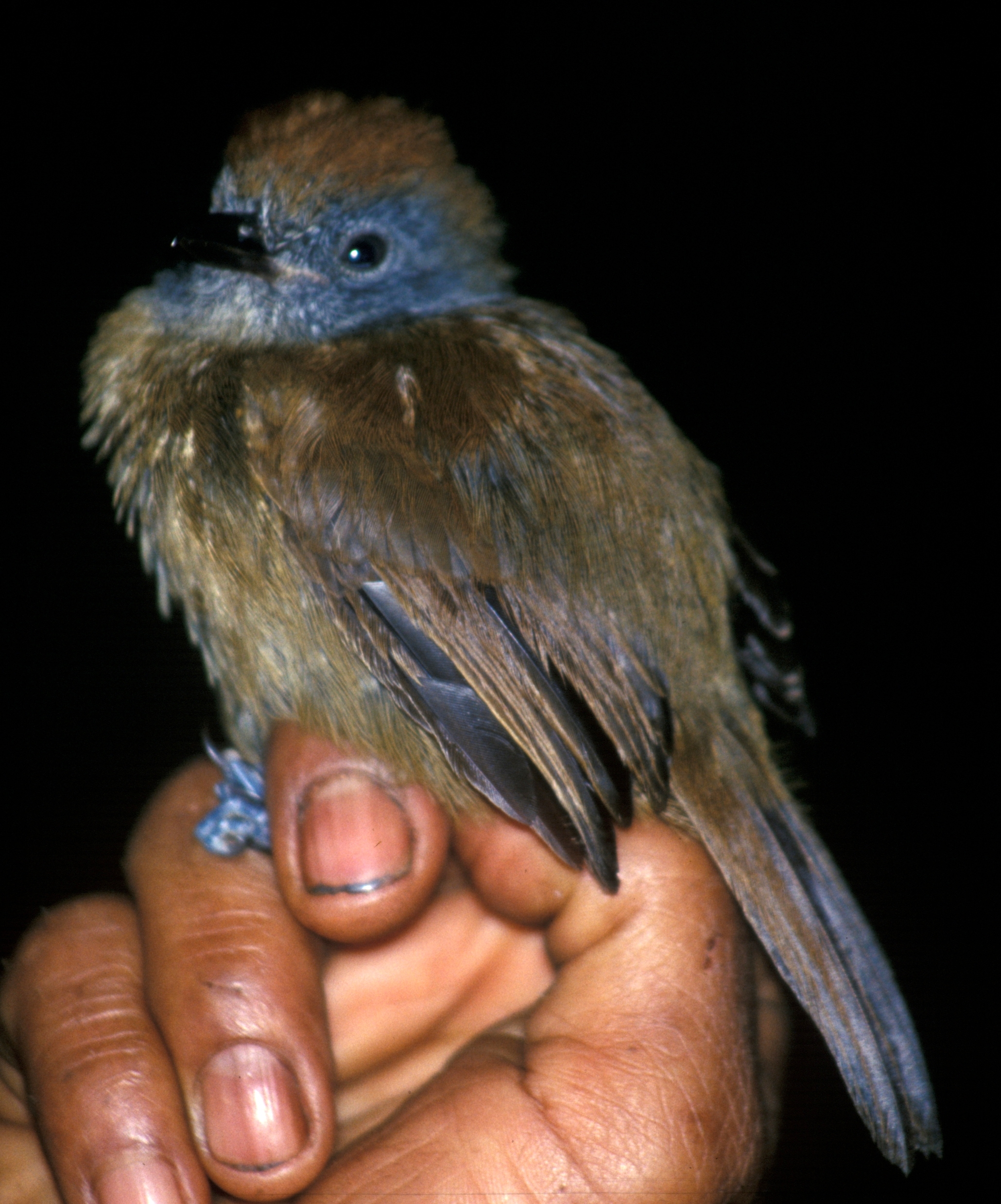 Uniform Antshrike (Thamnophilus unicolor), female in Ecuador